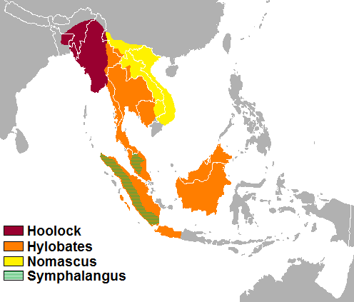 Gibbon distribution map.